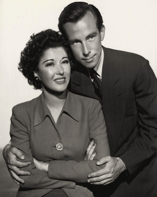 Erin O'Brien-Moore & Whit Bissell in the John Patrick's Play The Hasty Heart - publicity still (original image cropped : see source)